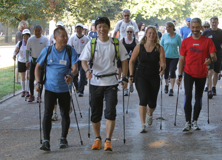 Nordic walking by group of people from all ethnics, gender and age from different parts of the world